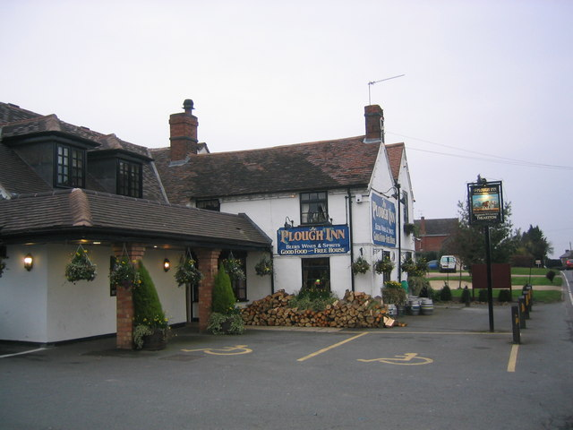 The Plough in Far Forest This pub lies just off the main road through the hamlet of Far Forest on the edge of Wyre Forest.